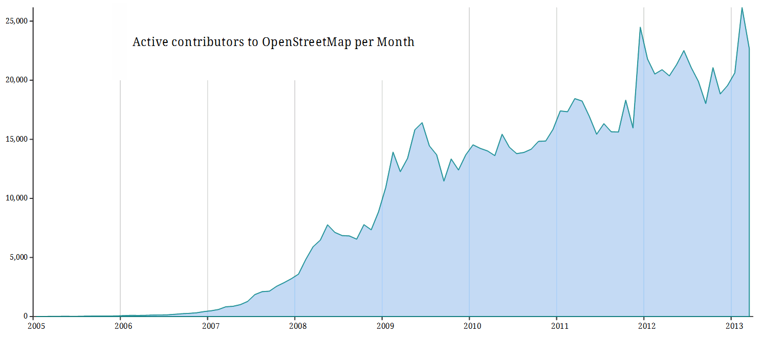 Analysed via Python. Errors in this file: missing user for changesets are mapped to one unique user - happens often till 2008 . Plotted with OpenOffice.